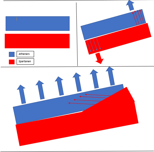 Battle of Mantinea (418 BC)